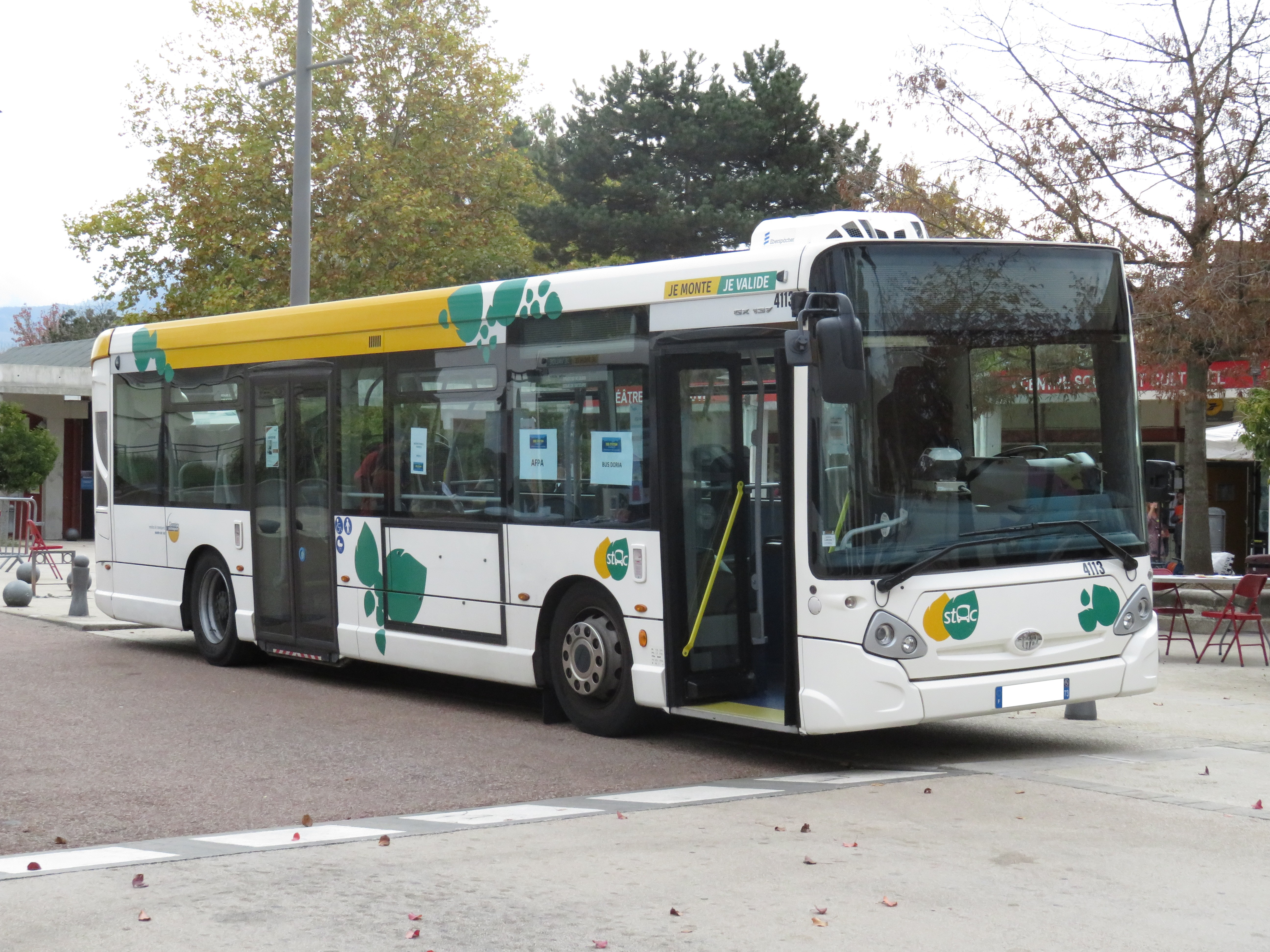 An Heuliez GX 137L (n°4113 of the French agglomeration community Grand Chambéry) in the Avenue du Pré de l’Âne (Chambéry, France) on October 27, 2017.